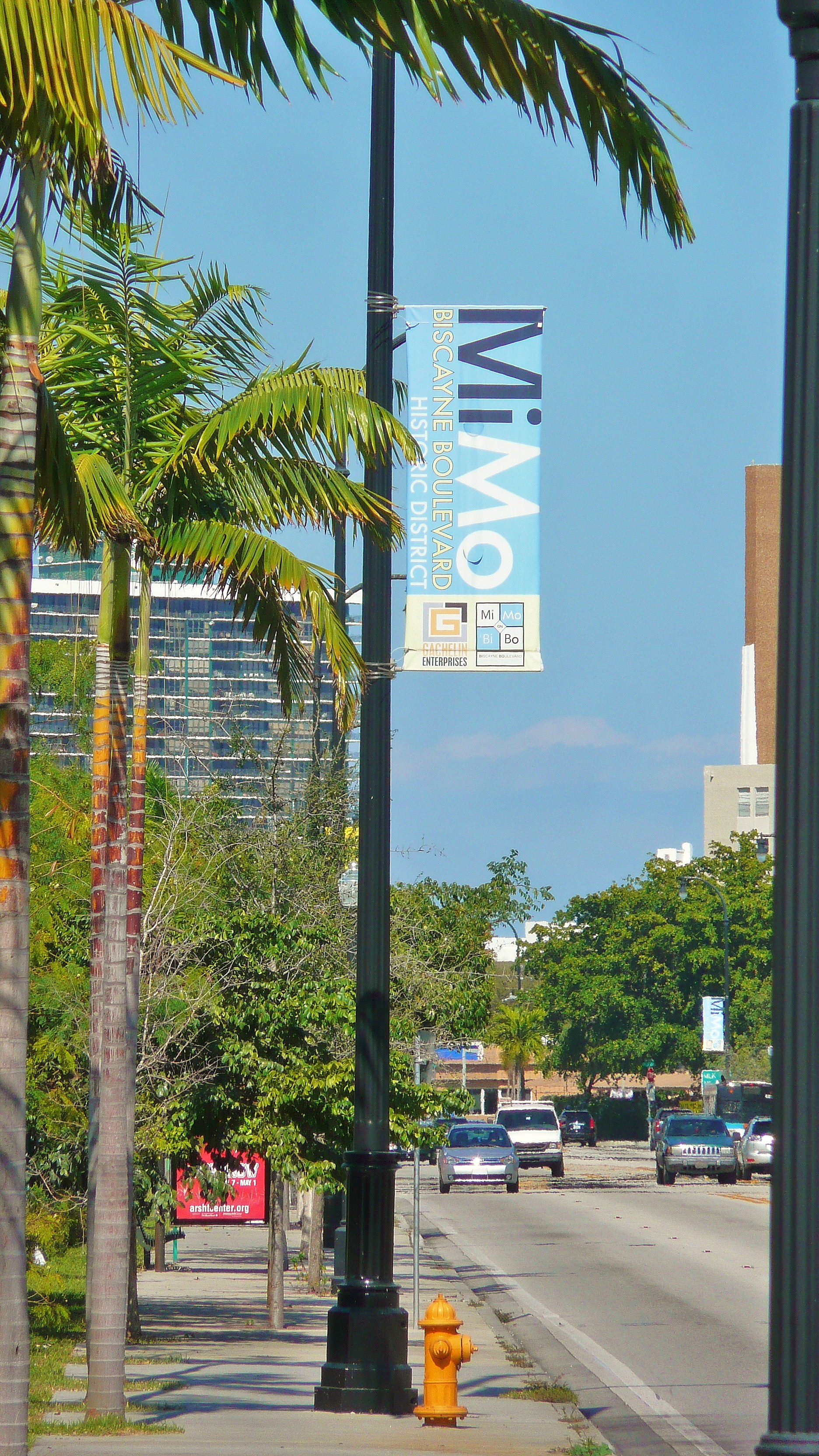 Digital photo taken by Marc Averette. MiMo District in Miami, Florida, United States.